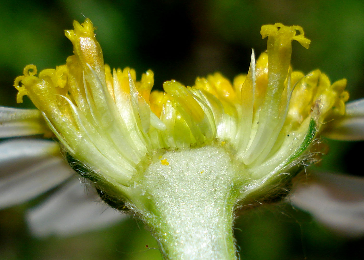 Anthemis arvensis (Unterfranken, Germany)